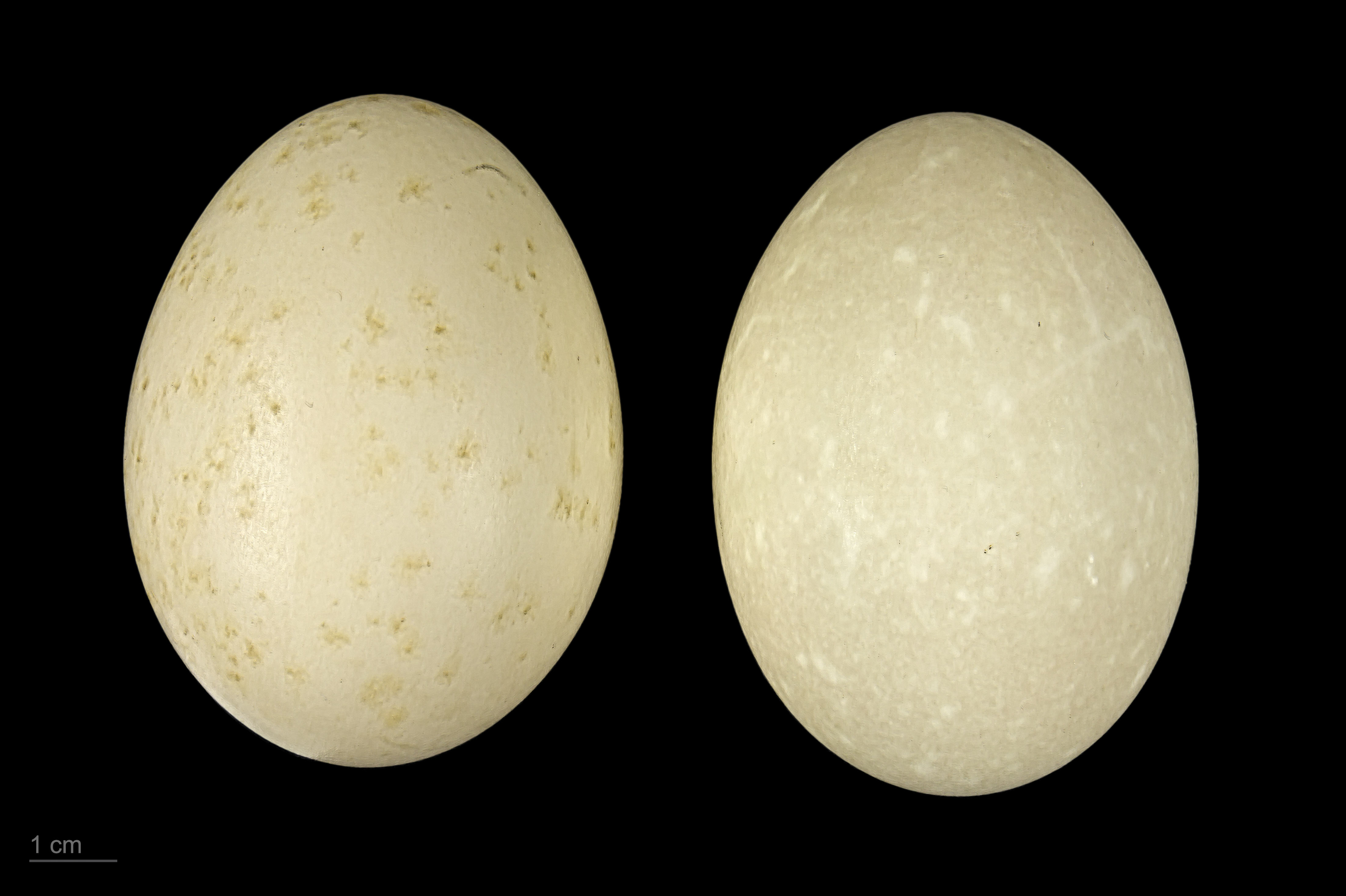 Eggs of red-breasted merganser Two specimens of the same spawn ; collection of Jacques Perrin de Brichambaut.